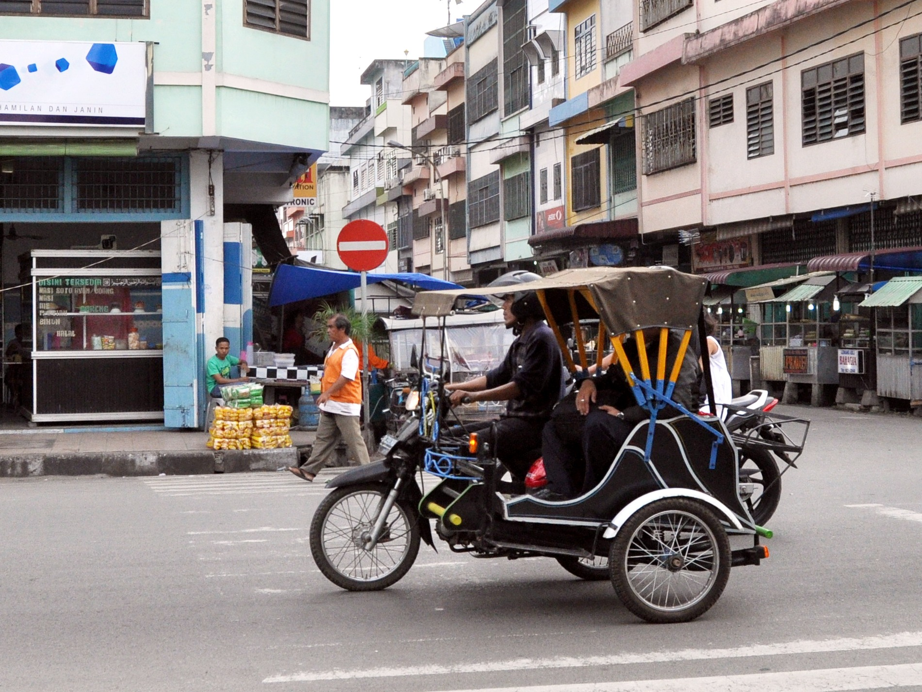 Bentor (motorized becak), a kind of auto rickshaw, from Tebing Tinggi, North Sumatra, Indonesia.